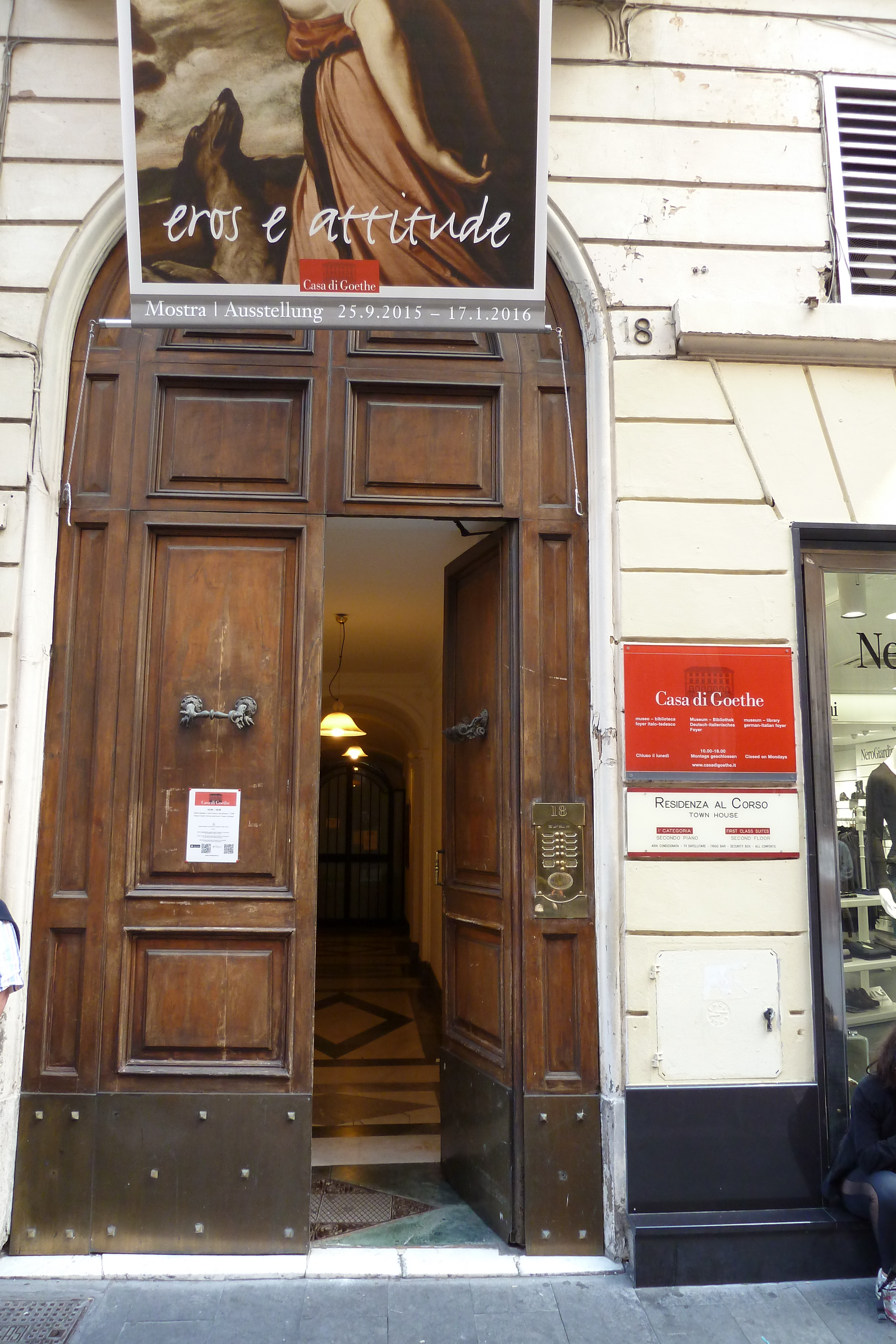 Entrance of the Casa di Goethe with the advertisement of an exhibition in 2015